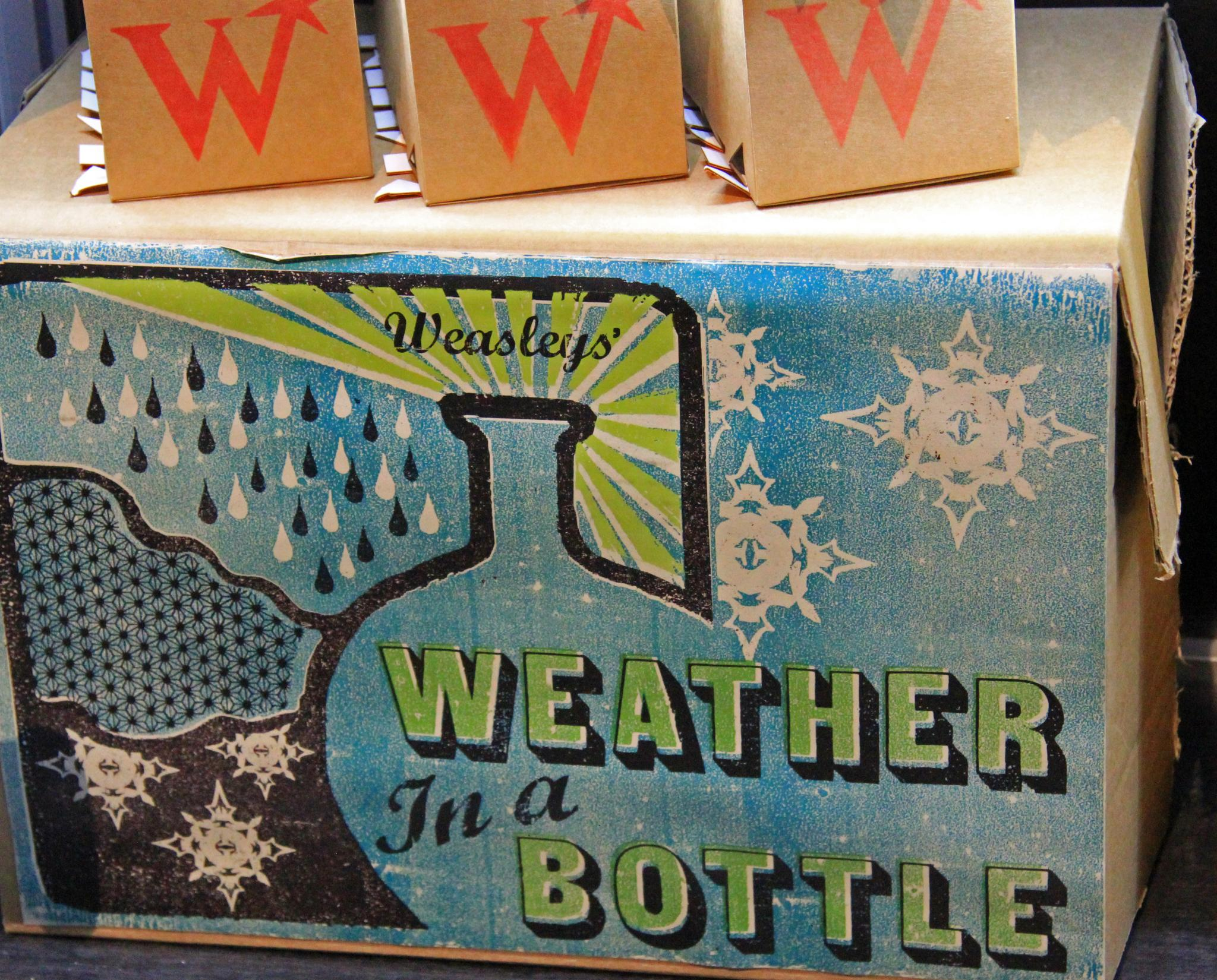 Warner Bros. Studio Tour London: The Making of Harry Potter.